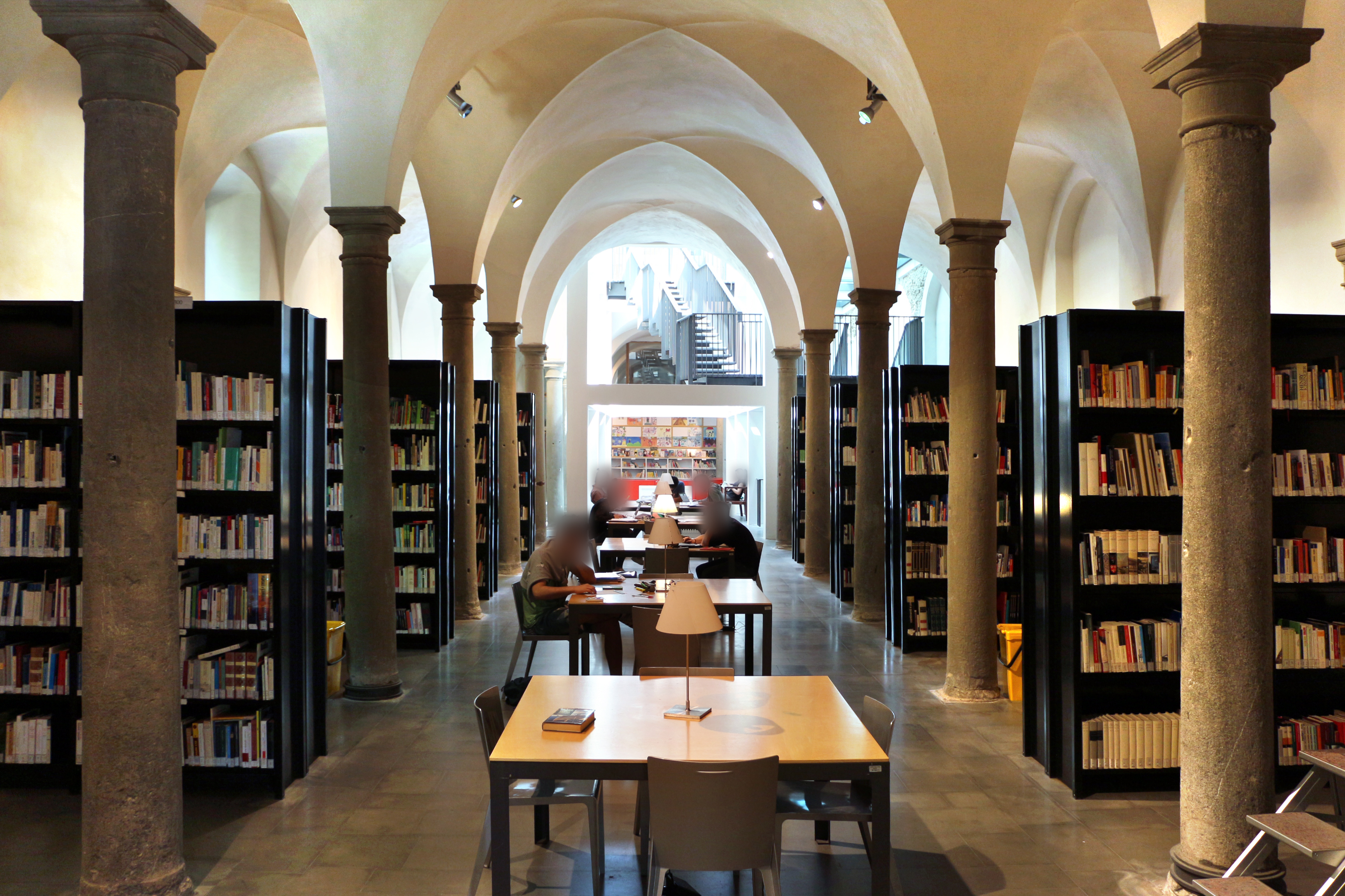 Poggio a Caiano